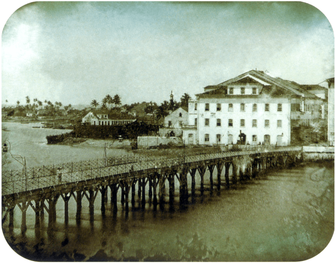 Daguerreotype of Recife, capital of Pernambuco, Brazil, 1851. The Ponte da Boa Vista (Boa Vista Bridge) is seen in the foreground